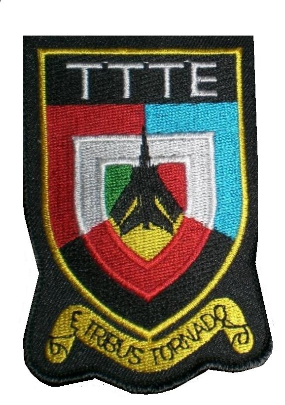 Coat of arms of the Tri-National Tornado Training Establishment (TTTE)